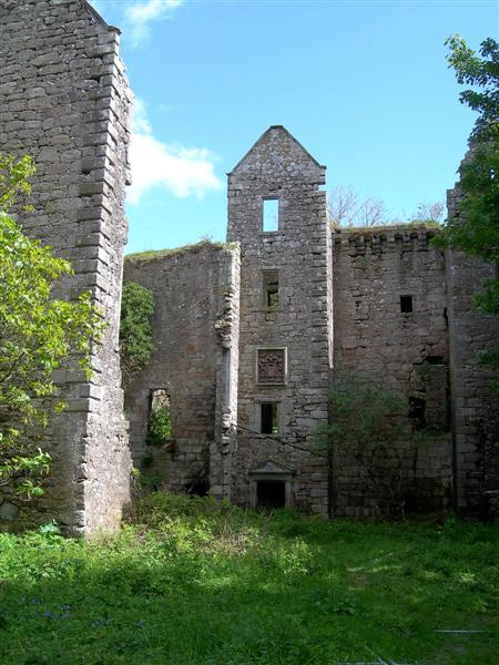 Ruins of Old Dalquarran Castle